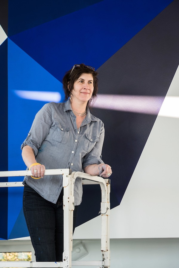 Photo of Victoria Haven